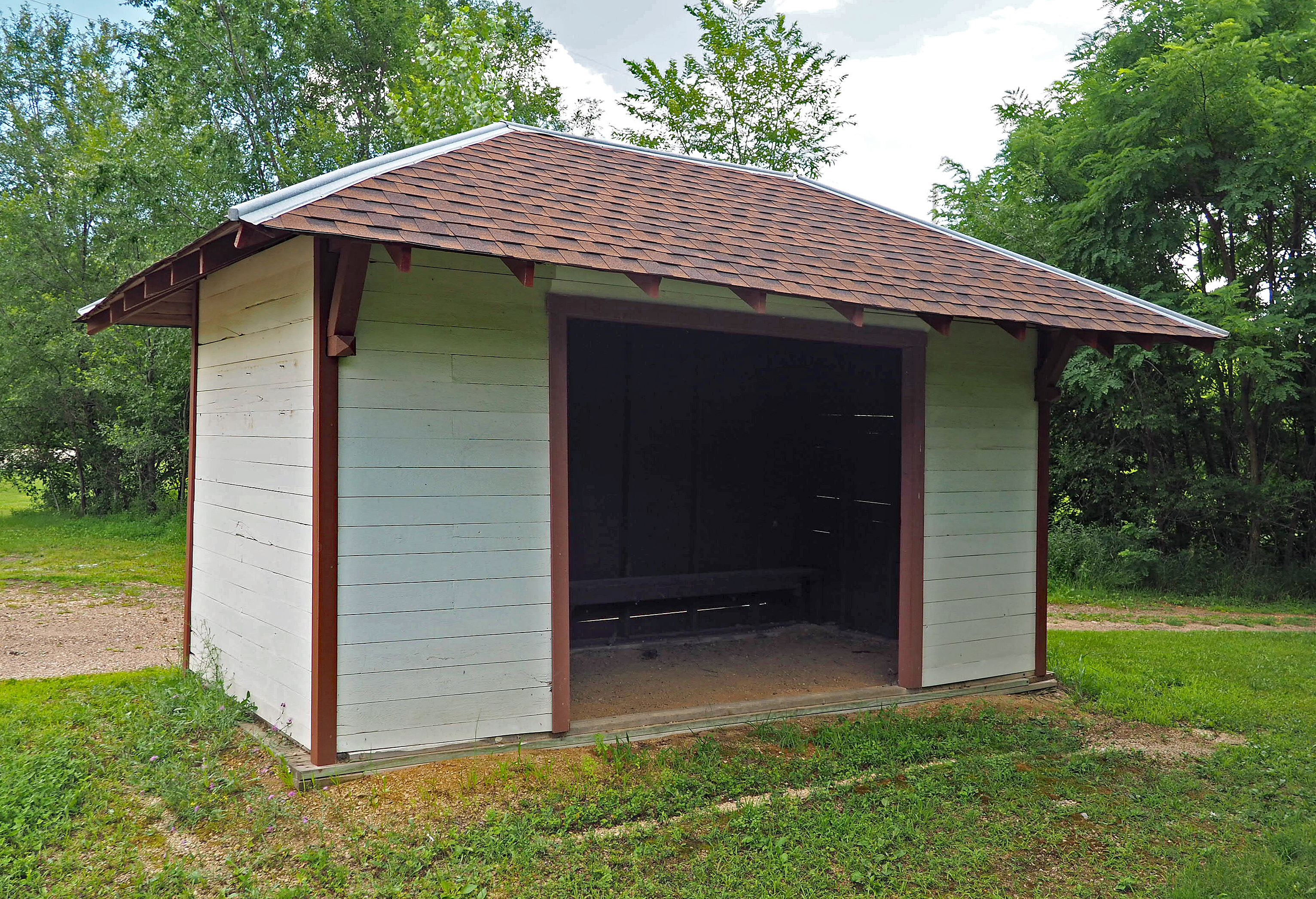 Orchard Gardens Depot, Kenwood Tr & 155th St, Burnsville, Minnesota, USA. Viewed from the northwest.